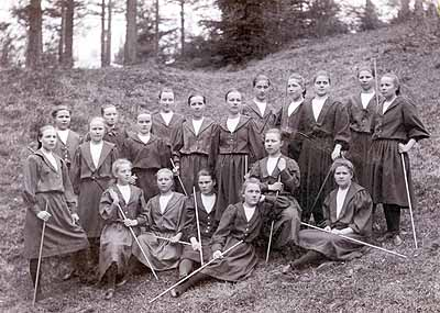 Female pupils of Jyväskylä teacher seminary in 1897, dressed in gymnastics dress